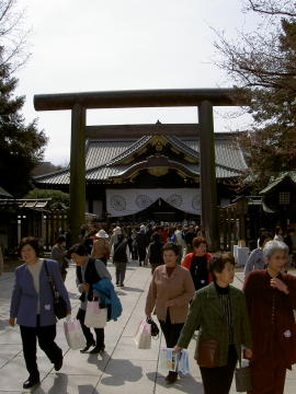 People at Yasukuni Shrine on August 15th, 2003, "Shusen-kinenbi (終戦記念日)", the day Japan officially and publically surrendered in 1945.